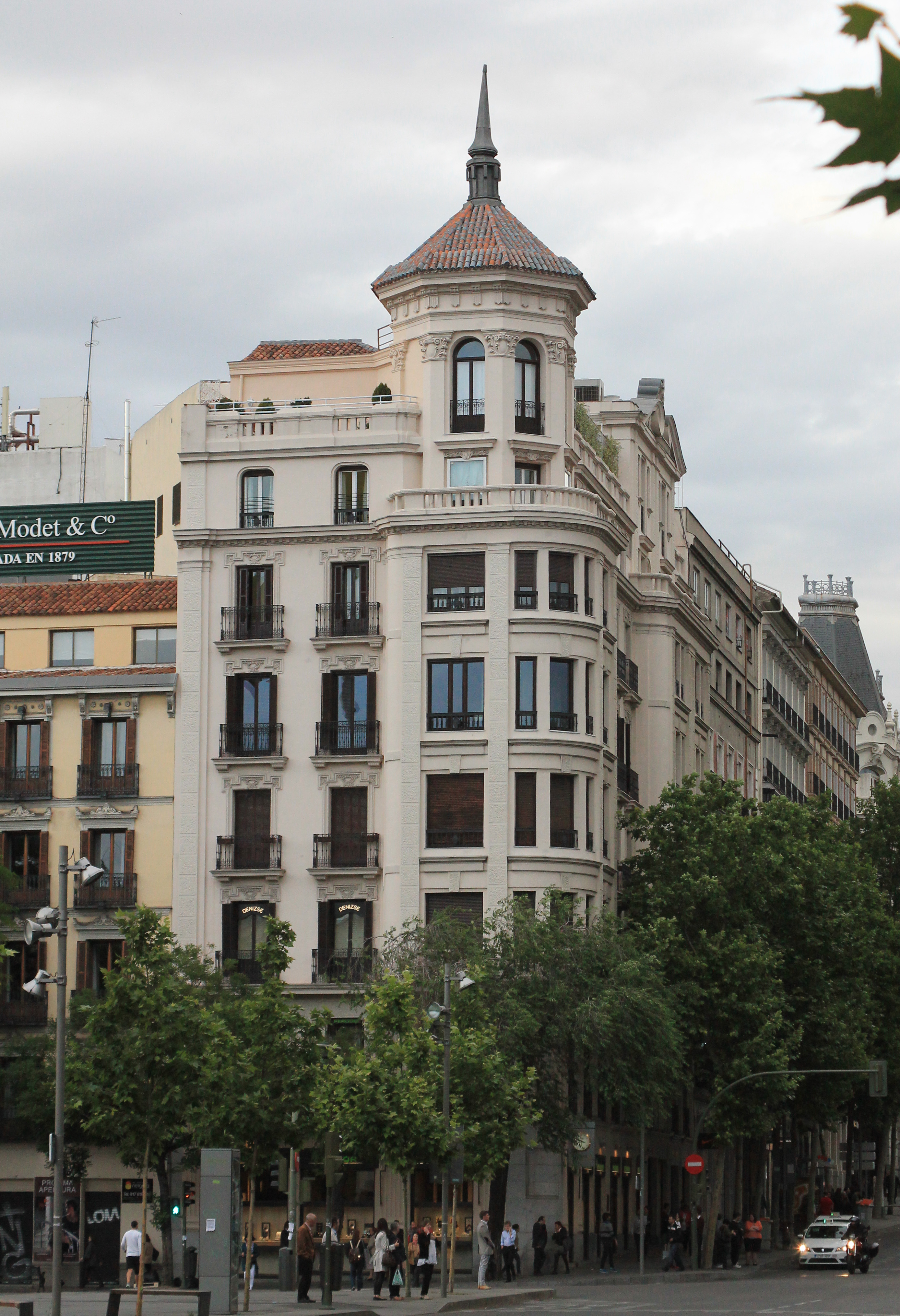 Housing building at 17 Calle de Serrano (street) in Madrid (Spain). It was built in the 1900's.